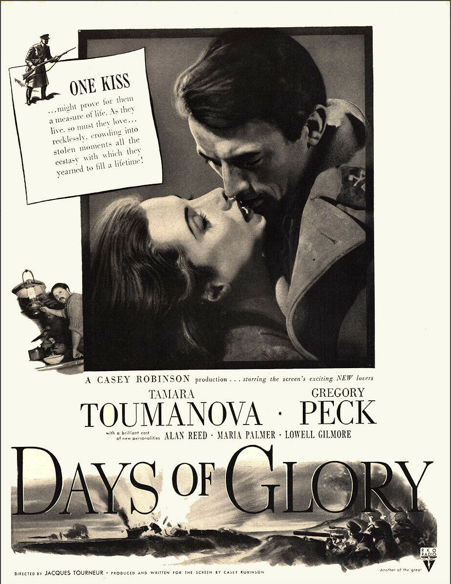 Print Promo Poster of 1944 American war-drama film Days of Glory (1944)